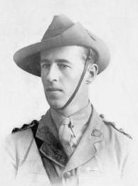 Stanley George Savige of the Australian Imperial Force, photographed as a captain in 1918.